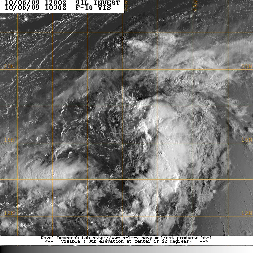 Tropical storm Henri 2009 06 oct, 10:36 UTC